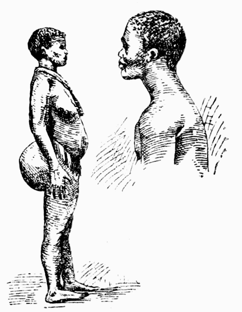 Woman and man of Khoikhoi tribe.